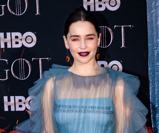 Emilia Clarke at the Game of Thrones Season 8 World Premiere at Radio City Music Hall, April 3, 2019. Photo by Sachyn Mital.